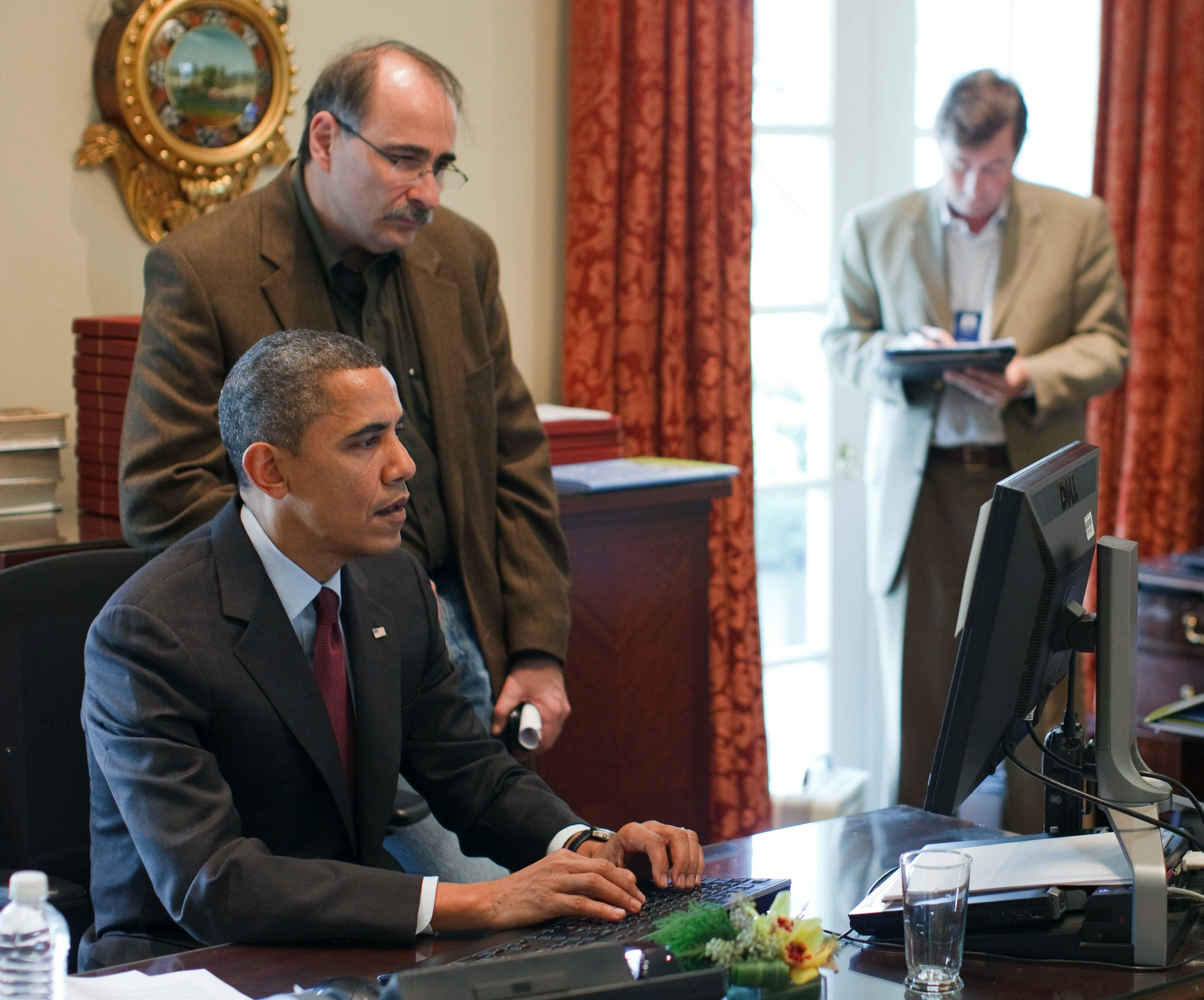 "Senior Advisor David Alexlrod watches as the President makes last minute edits on his statement announcing the trade deal with South Korea." (Official White House Photo by Pete Souza) License on Flickr (2011-01-12): United States Government Work Flickr tags: Washington, D.C., D.C., USA